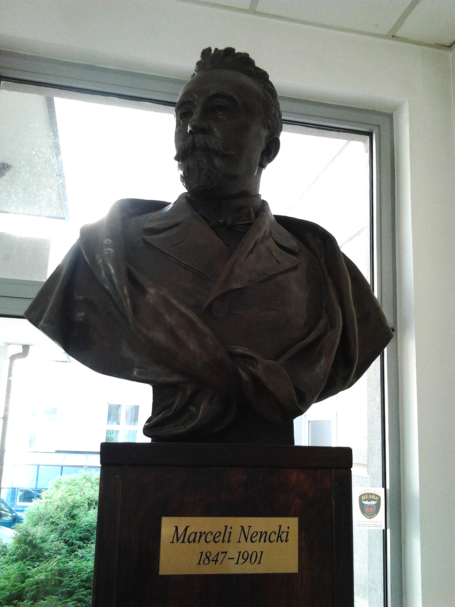 the statue of Marceli Nencki near the entrance to Nencki Institute of Experimental Biology